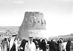 The Kut or Citadel at Hofuf